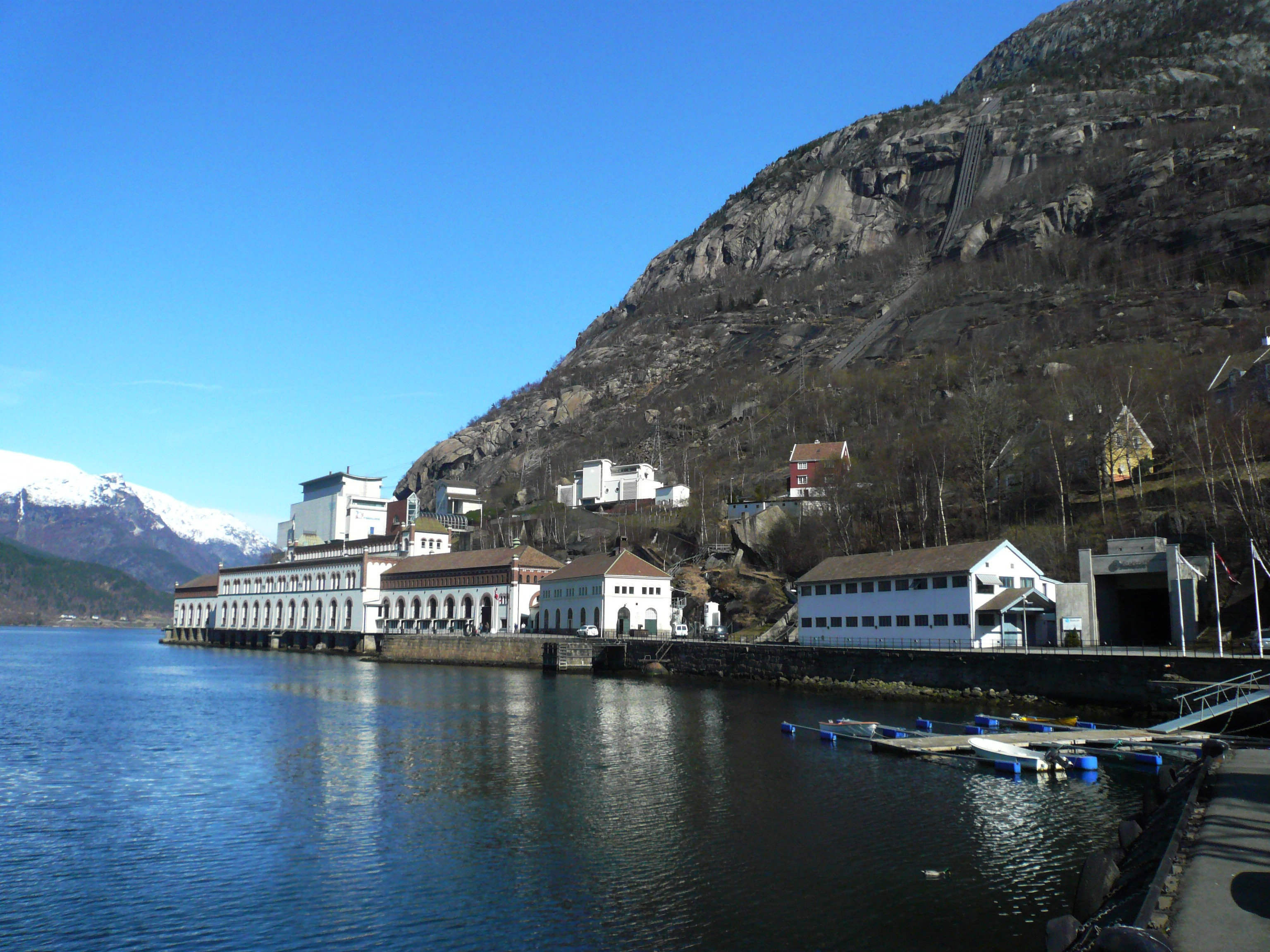 Tyssedal